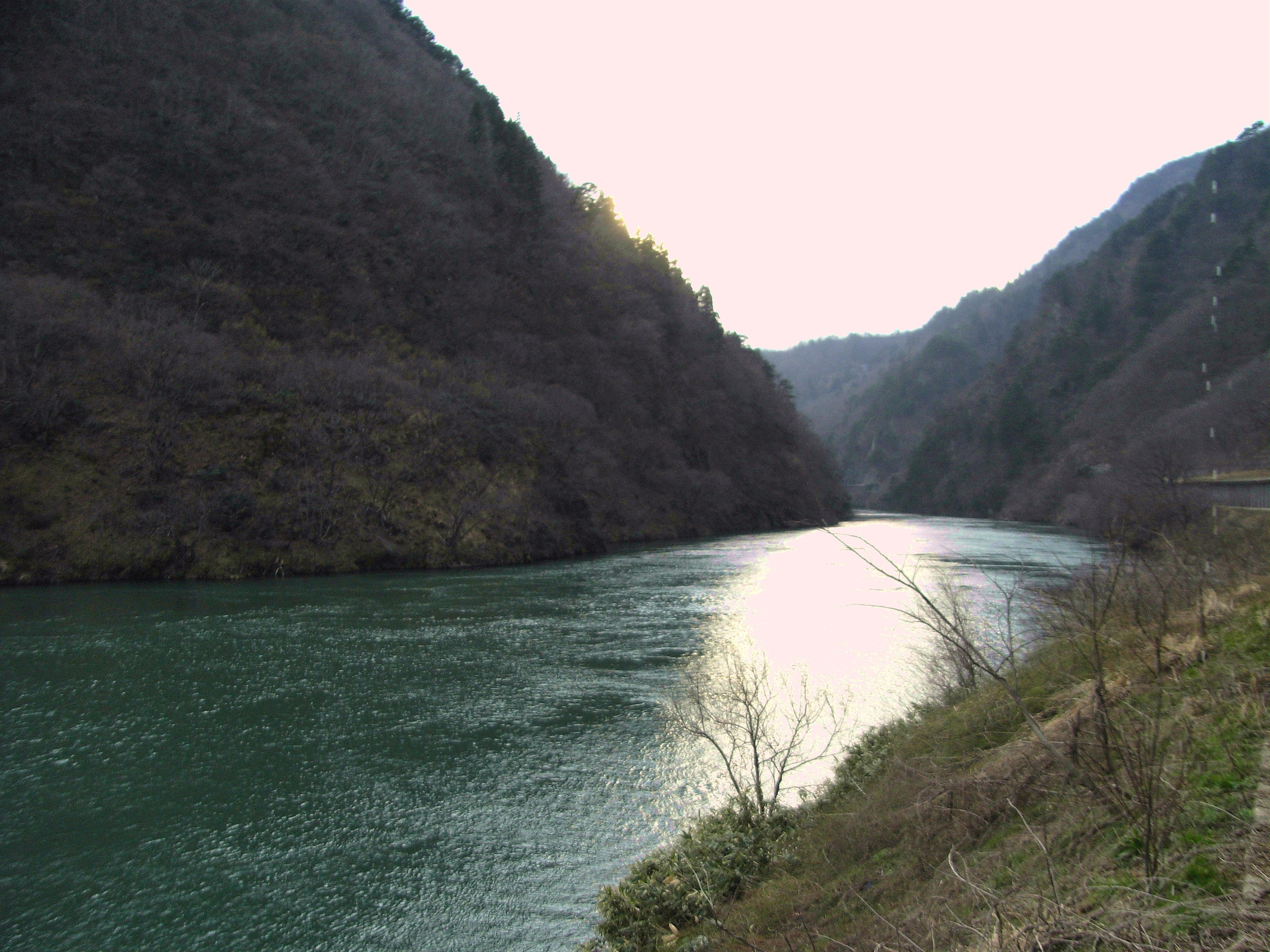 Aganogawa river(Niigata Pref./Japan)